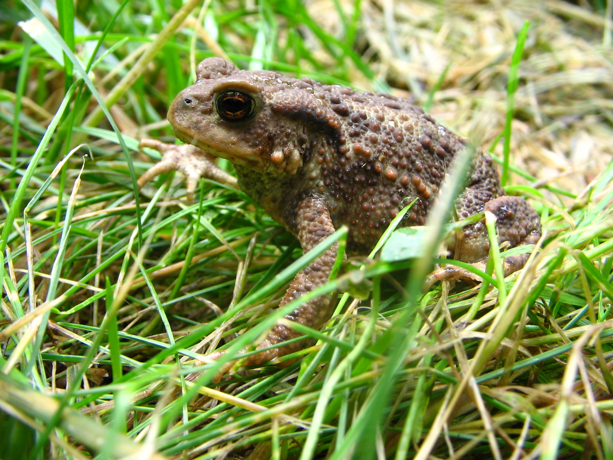 Bufo bufo near Telč, Czech republic (July 11, 2005)